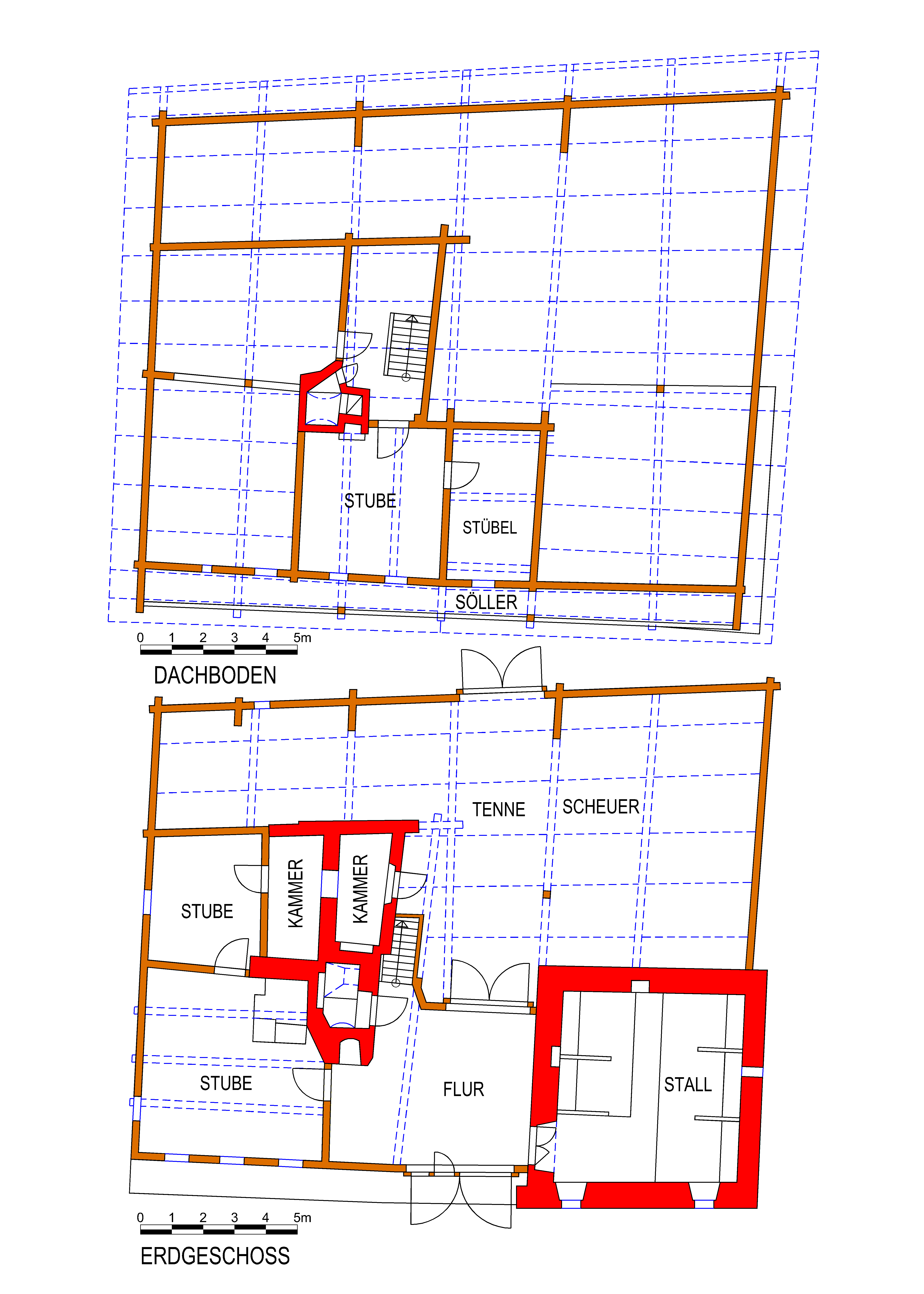 Volary, house No. 42, floorplans. Legend: red: stone masonry, brown: timbered walls. original image: Václav Mencl: Lidová architektura v Československu. Praha: Academia, 1980, p. 500, image no. 1246. description in German